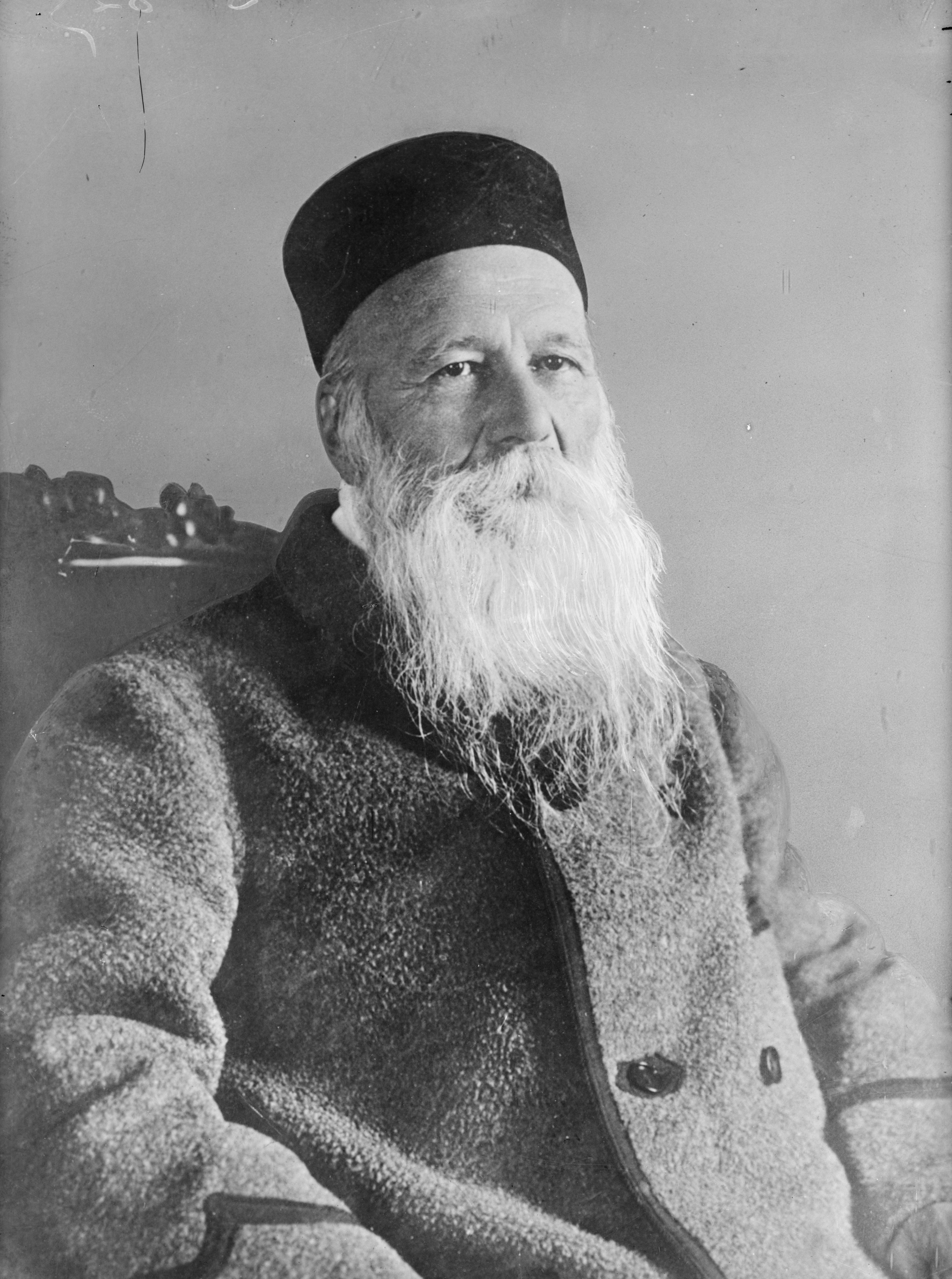 Henry Dunant (1828–1910), Swiss philanthropist and co-founder of the International Committee of the Red Cross; Nobel Peace Prize laureate 1901